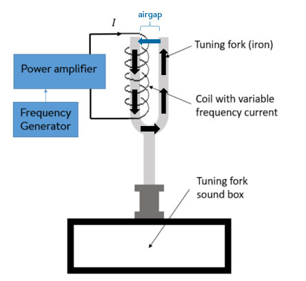 This experiment run by EOMYS illustrates how magnetic forces can generate vibrations and resonates with a structural mode using a tuning fork excited by a variable frequency coil.